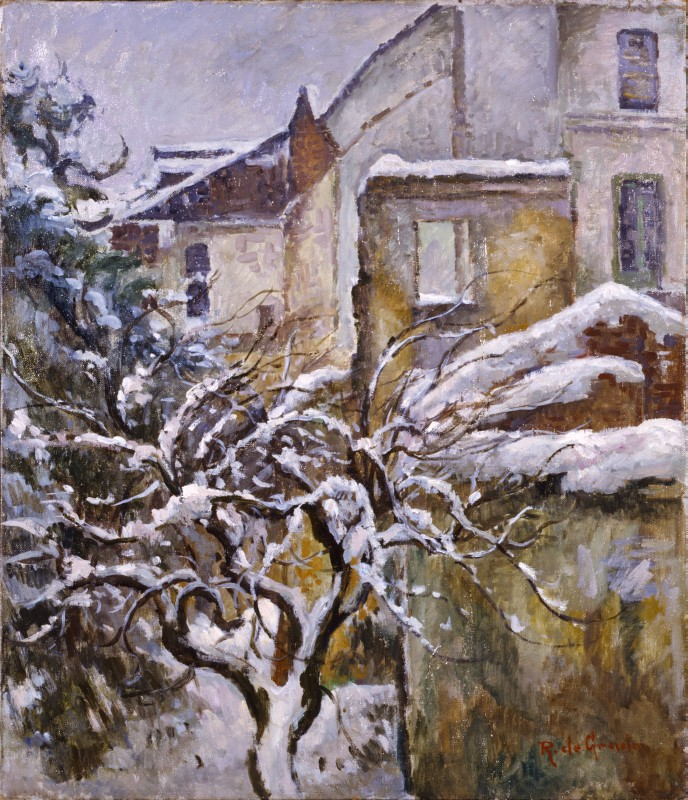 As attested by the autograph inscription on the back, the Cassa di Risparmio delle Provincie Lombarde bought the painting from the artist in October 1951. The subject is one first addressed by the painter in the 1930s with Snow in Milan or Snow on the Outskirts of Milan, (winter of 1932–33, private collection) and Snowy Landscape (Milan, Galleria d’Arte Moderna). It is also featured in a significant group of works from the second half of the 1940s, including The Treccani Gardens or Snow-Covered Garden in Milan (1945, Lidia De Grada Treccani Collection, Milan) and Snow in Milan (1948, Milan, private collection). On moving to Milan in 1929, De Grada devoted his energies to the landscapes of the Brianza region and views of the urban outskirts under the influence of the coeval work of the members of Novecento Italiano, taking part on a regular basis in the major exhibitions organized by the movement’s governing committee inside and outside Italy. The winter landscapes of the 1940s attest to a new approach characterized by unprecedented freedom in the handling of paint and the adoption of a sober range of colours hinging on the contrast between a few shades of brown, black and grey and dazzling whites. The painting considered here, possibly a view of Milan in the area of the artist’s studio on Via Omboni, belongs to this period of mature production by virtue of the handling of paint and the rarefied atmosphere of the landscape.